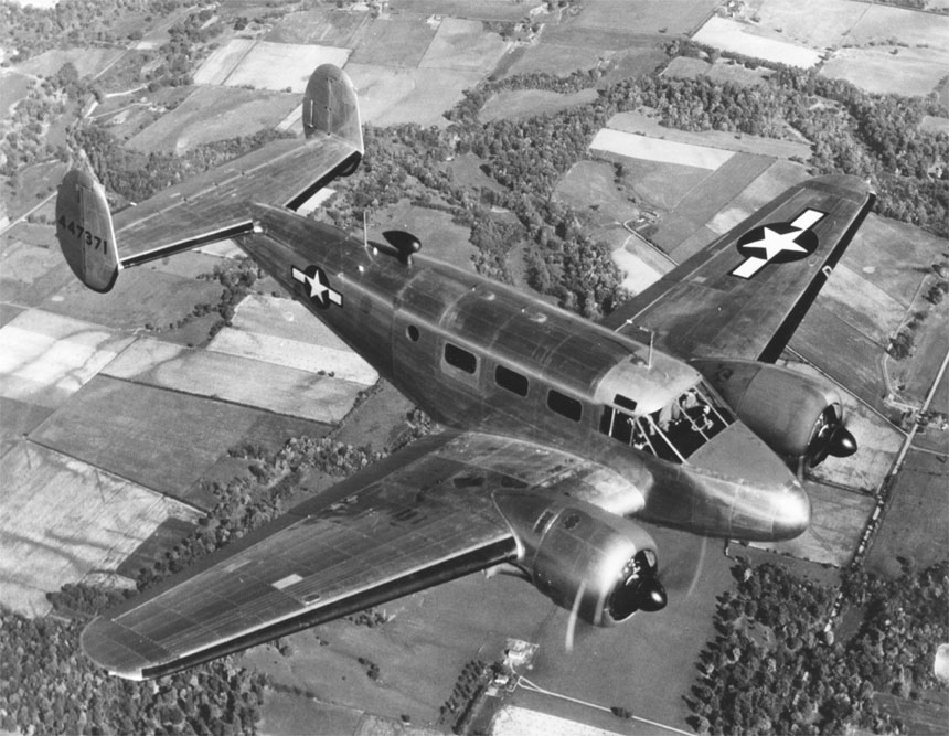 Description: Beechcraft UC-45F in flight.